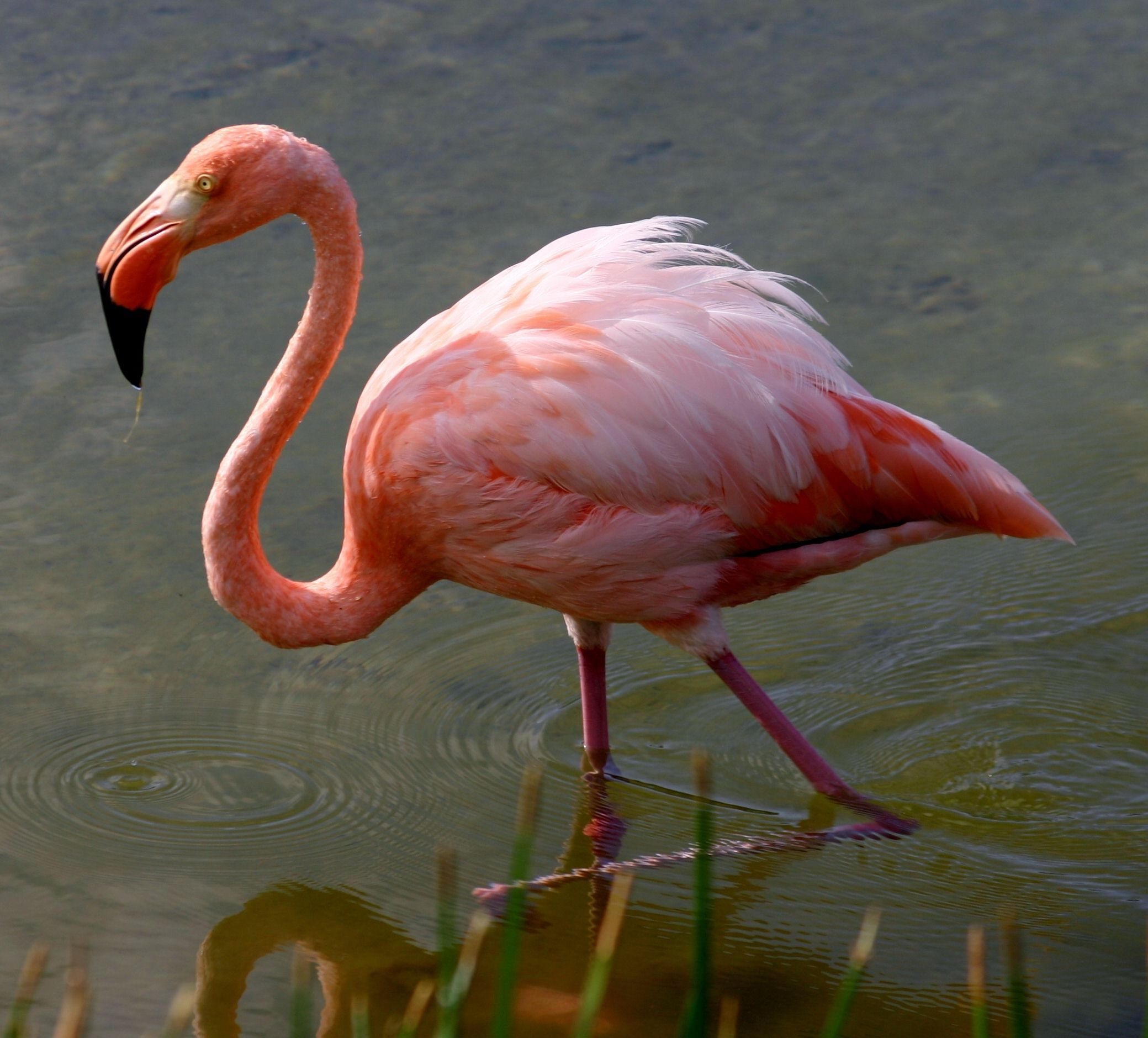 Greater flamingo,Isabela Island,Galapagos Islands.